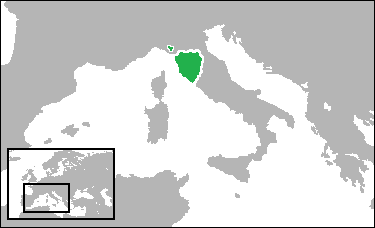 Locator map showing the Grand Duchy of Tuscany in the year 1700. (Territory was largely the same through its entire existence)(Partially based on Euratlas map of Europe - 1800.)